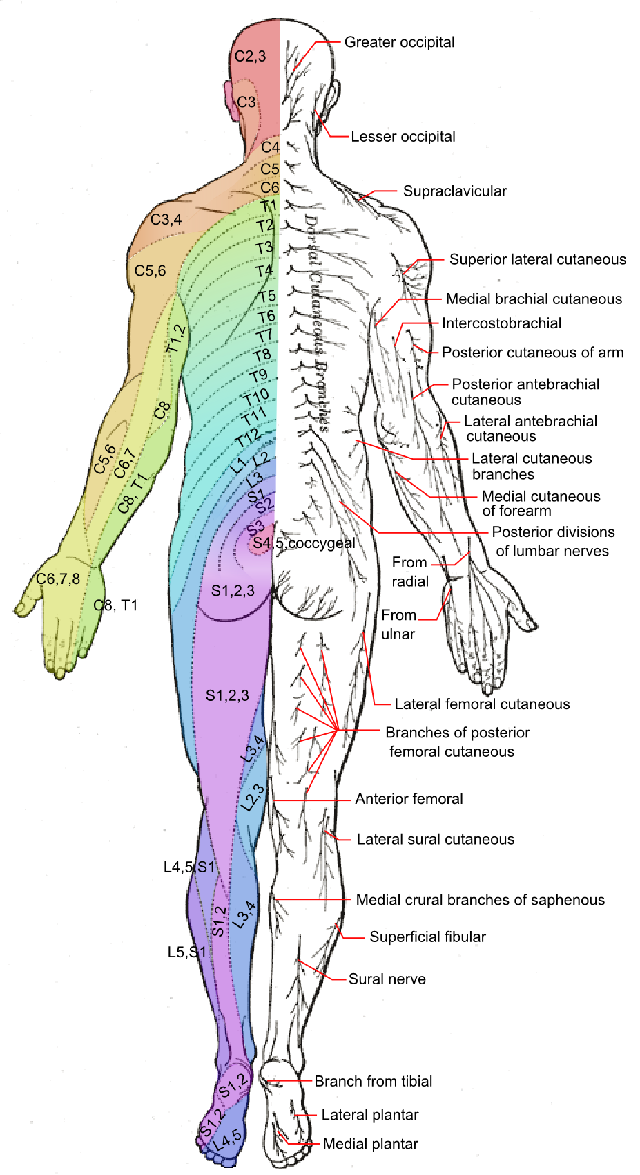 Dermatomes and major cutaneous nerves in a dorsal (posterior) view. The original names were given as abbreviations of sometimes obsolete terms, and this has given some uncertainty whether the names refer to the accurate cutaneous nerves regarding the nerves on the upper arm, so if an error here is detected, please make a comment on the talk page or edit it directly. For more detailed images on the upper arm, see File:Gray812and814.svg for areas of innervation, and File:Gray811and813.PNG for courses of the nerves.